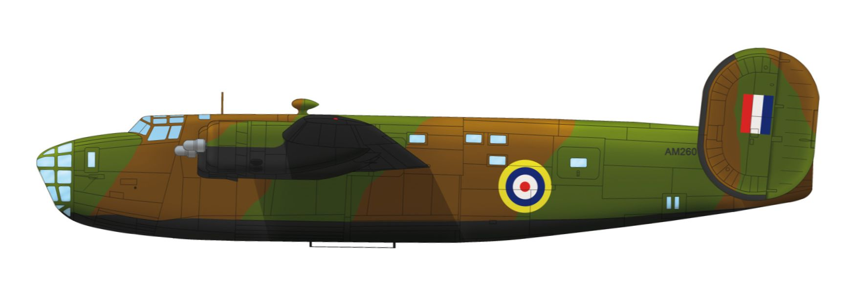 Consolidated LB-30A, s/n AM260, used by Atlantic Ferry Command